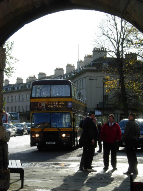 Exhibition Square, York Seen through the archway of the old fortifications protecting the Abbey of St Mary, one of York's open-top sightseeing buses rests in Exhibition Square, close to the company's offices. A group of bus drivers discuss some matter in the foreground.